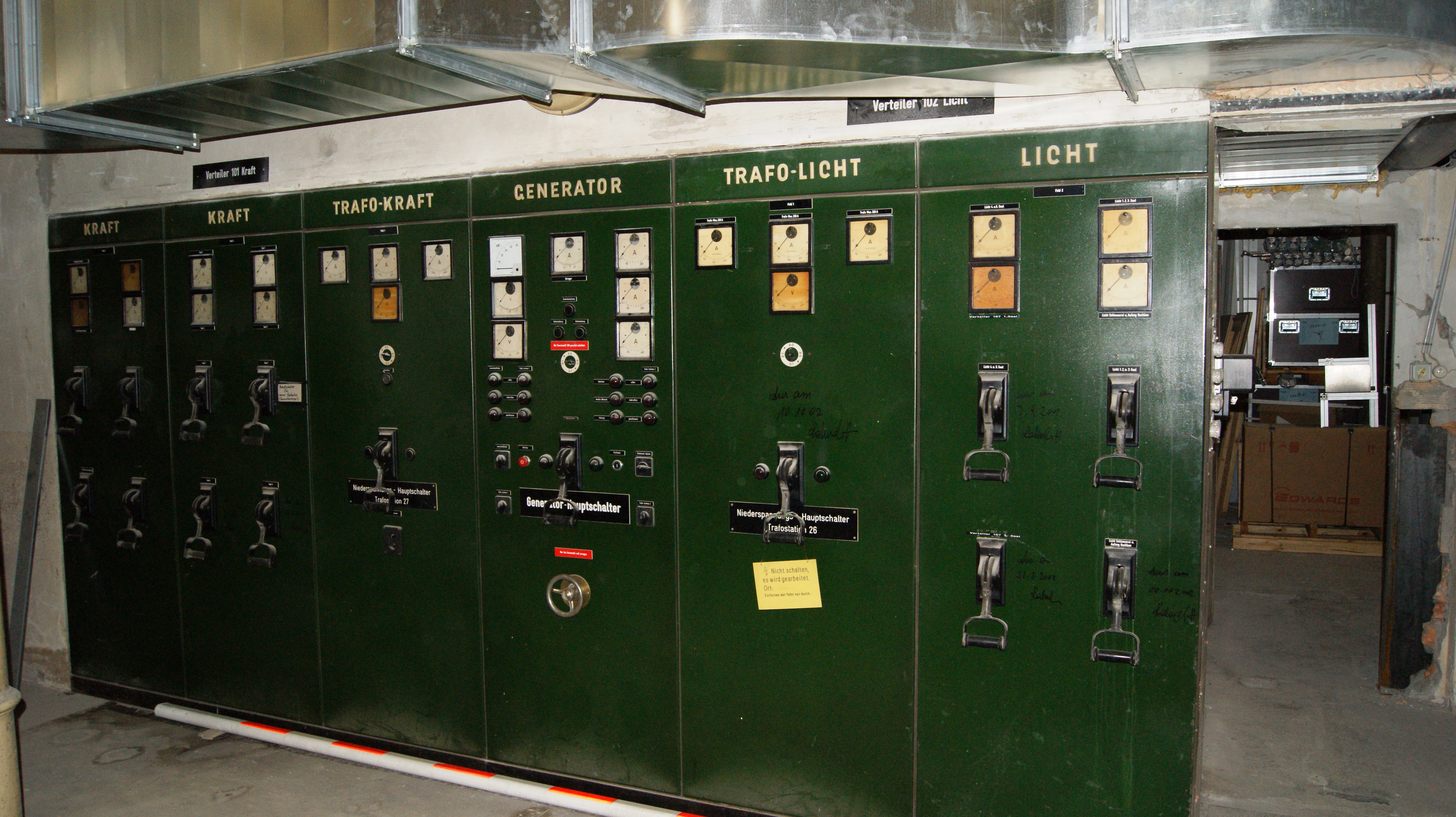 Power plant in the former office building of the Company: Franz Martin Haemmerle (FMH), Sägerstrasse 4 in 6850 Dornbirn, Vorarlberg, Austria. Control cabinets of the power plant (front).